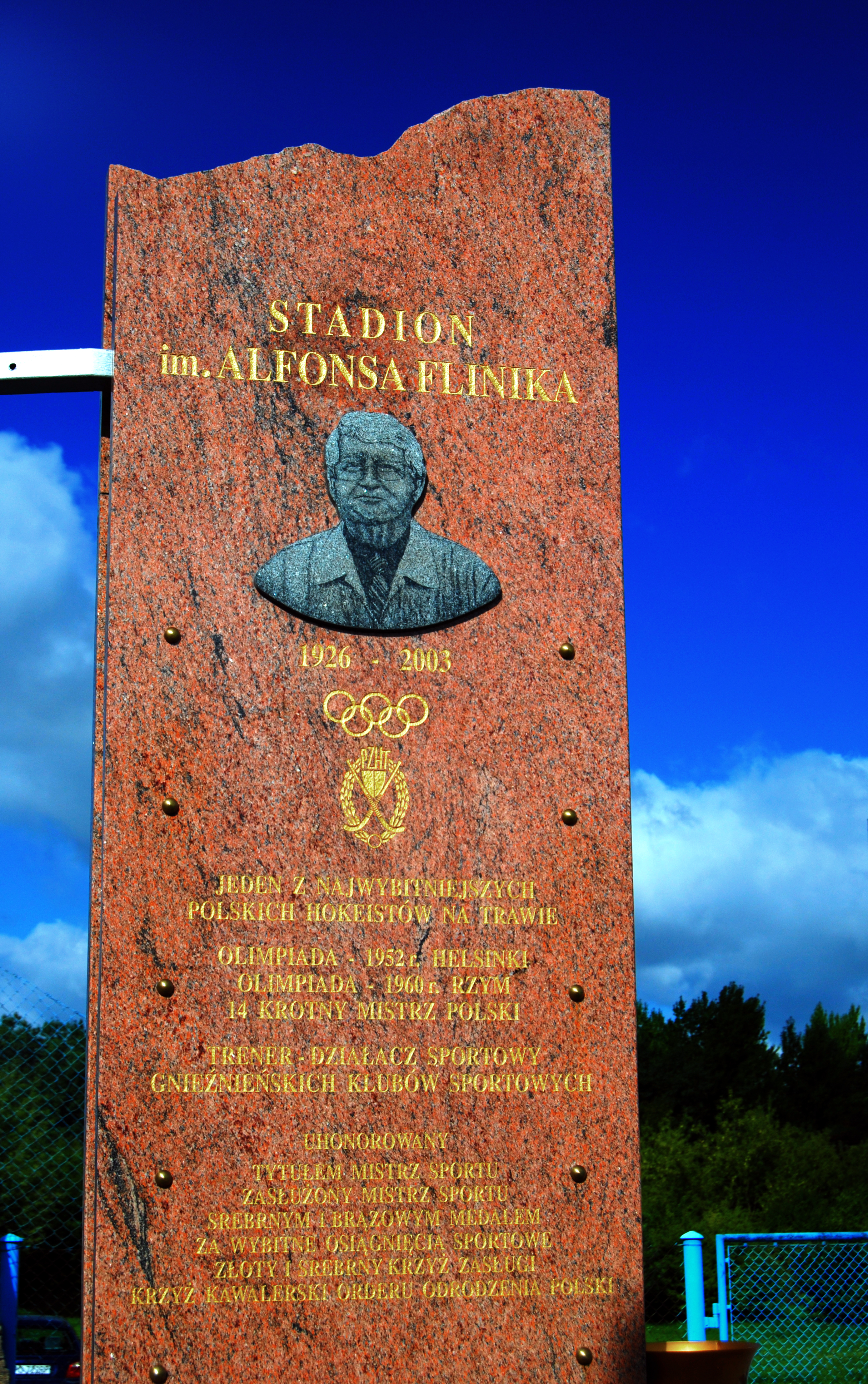 Alfons_Flinik.